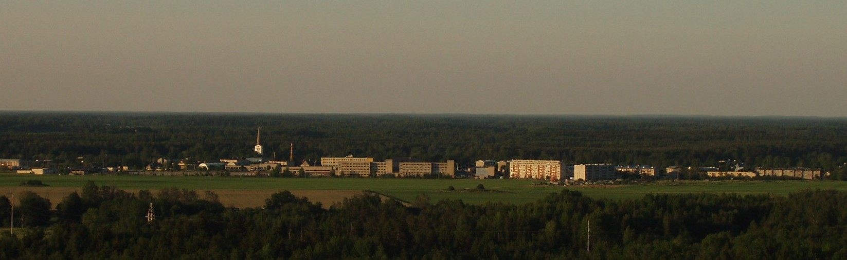 Administrative centre of the Kose Commune in Harju County (Estonia). Small borough (Estonian: alevik) of Kose from air.